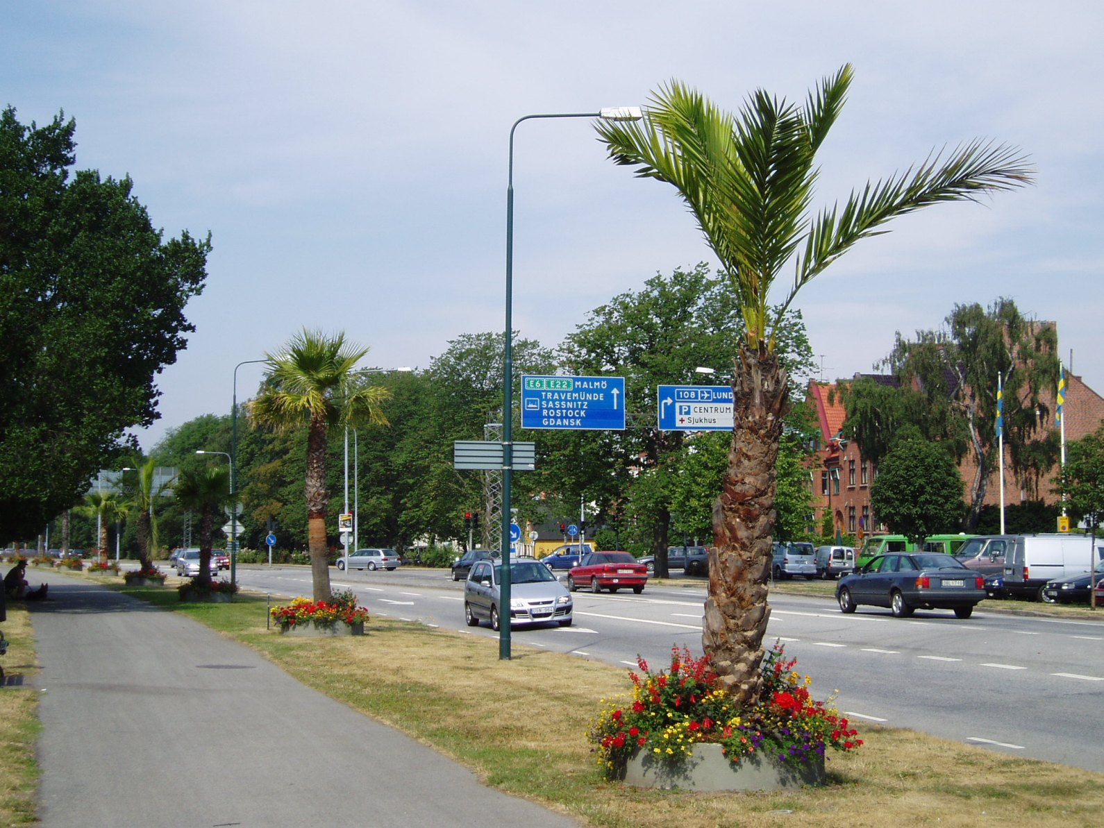 Palms at Trelleborg, Sweden.